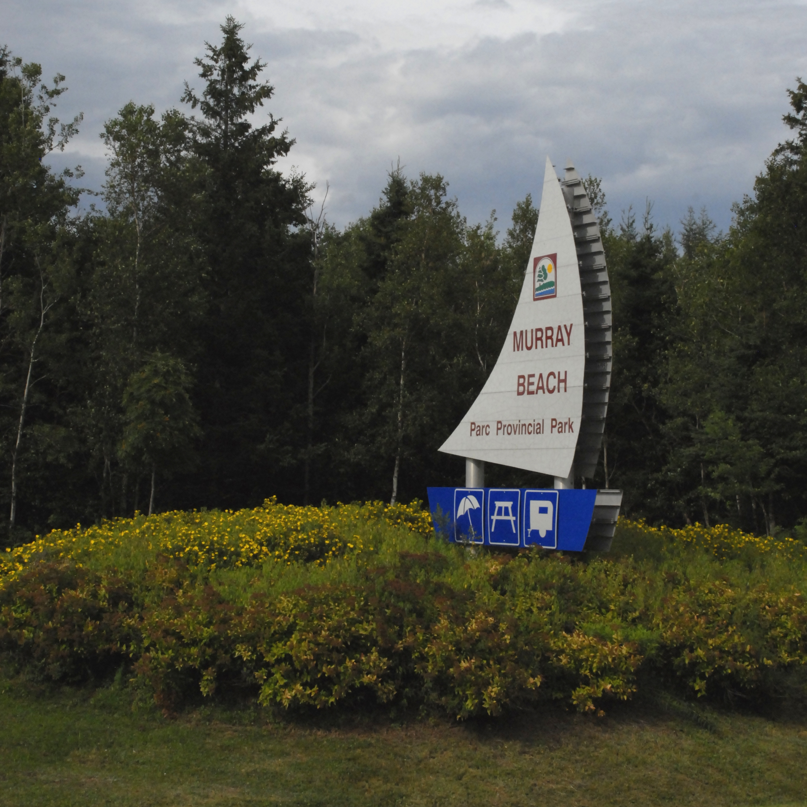 Murray Beach Provincial Park, Westmorland County, New Brunswick, Canada